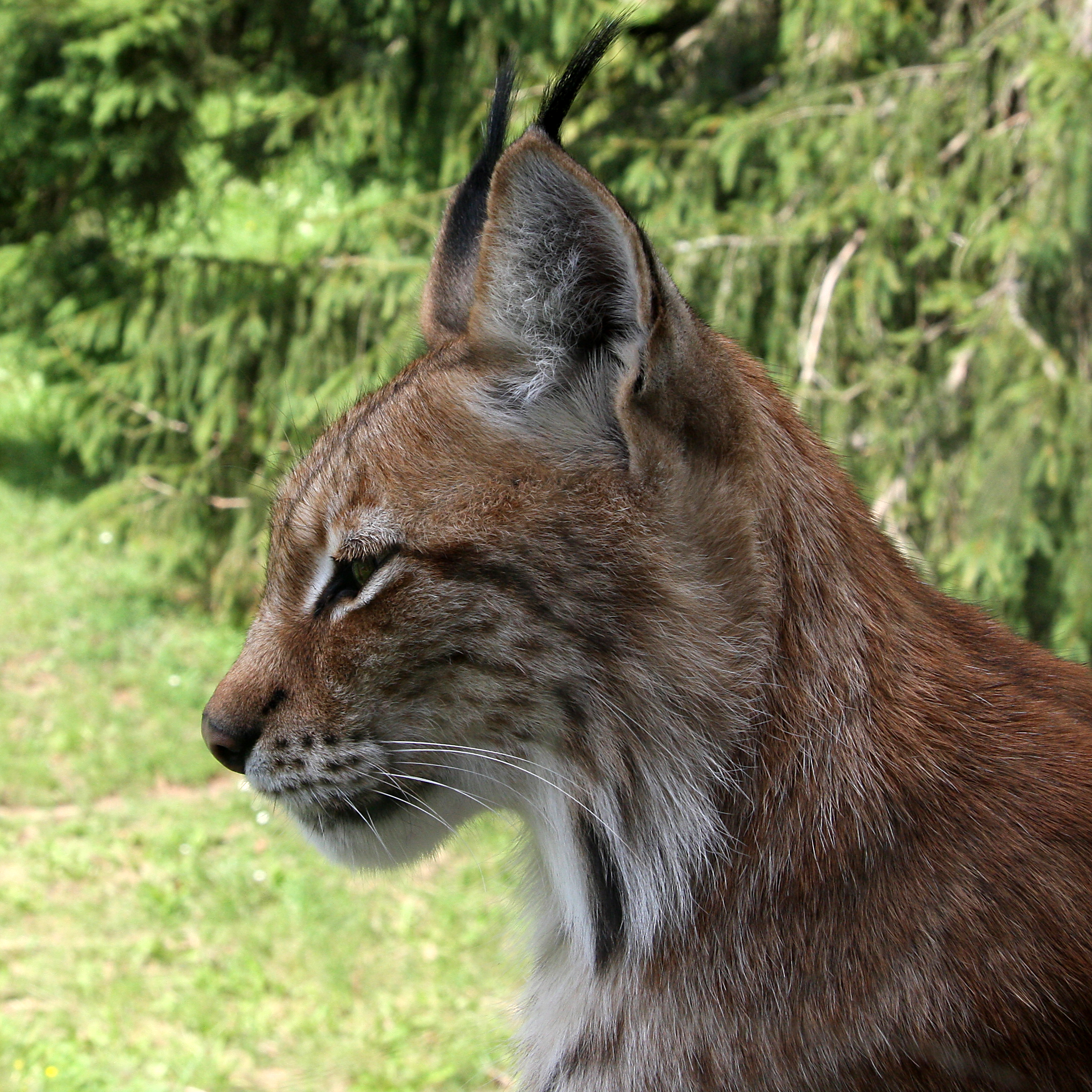 Eurasian lynx at a zoo in southern Sweden, Skånes djurpark.